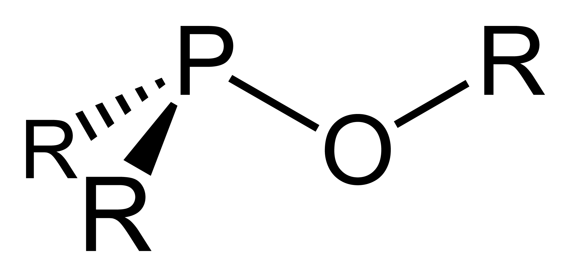 Structural formula of a generic phosphinite. Image generated in ChemBioDraw Ultra 12.0.